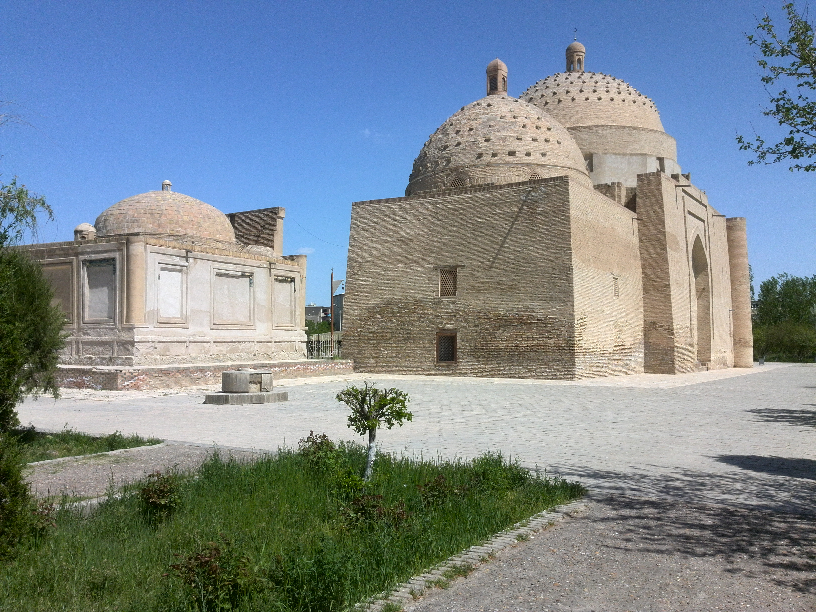 Saif ed-Din Bokharzi mausoleum in Bukhara, Uzbekistan